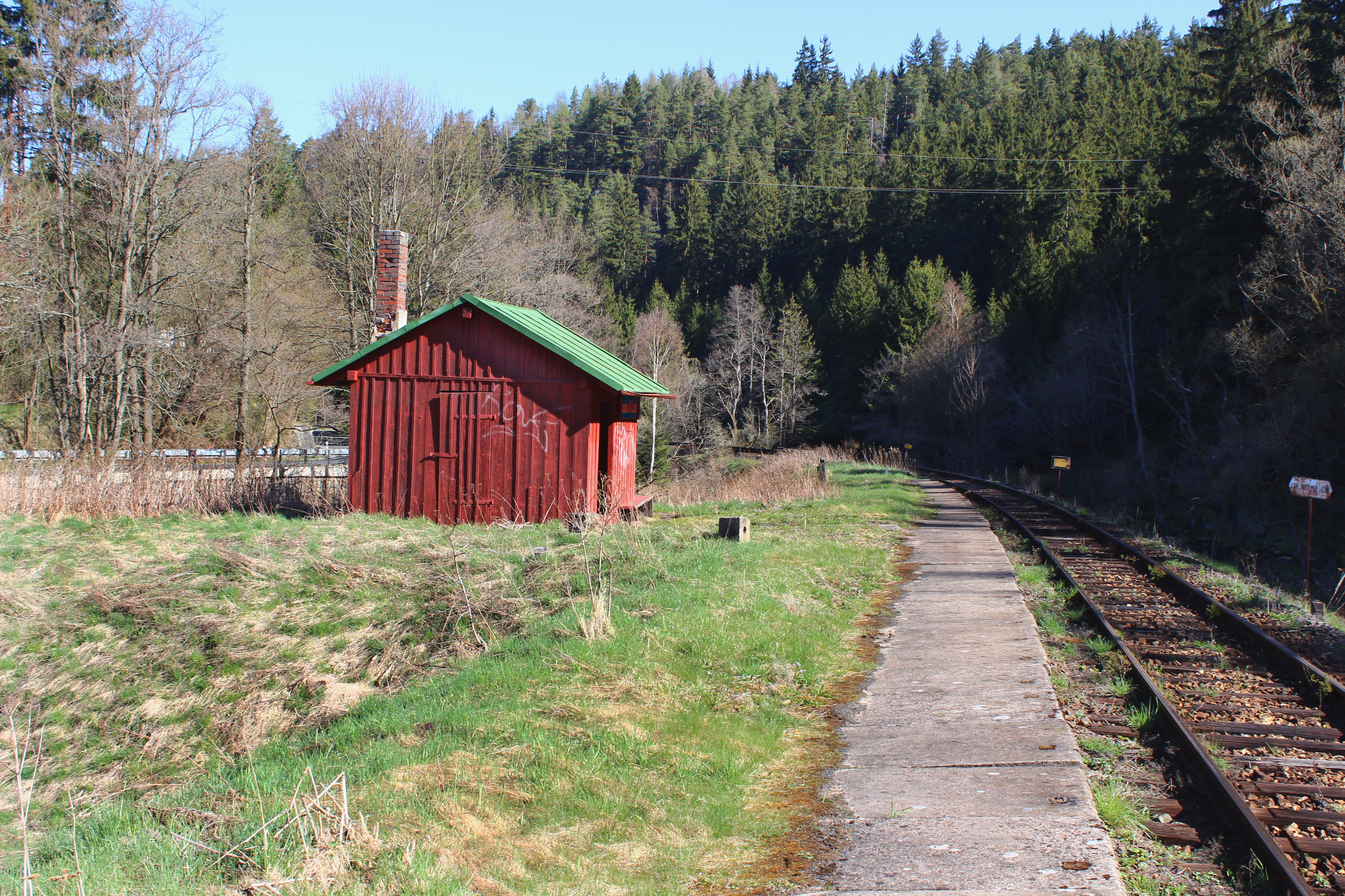 Louka u Mariánských lázní train stop by Bečova nad Teplou, Czech Republic